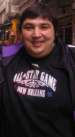 Kaan Kural, a Turkish actor and basketball commentator in 2010.